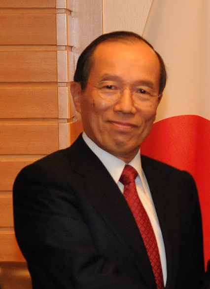 Sebastián Piñera, President, met with Kaoru Yano, Chairman of the NEC, on November 15 2010.